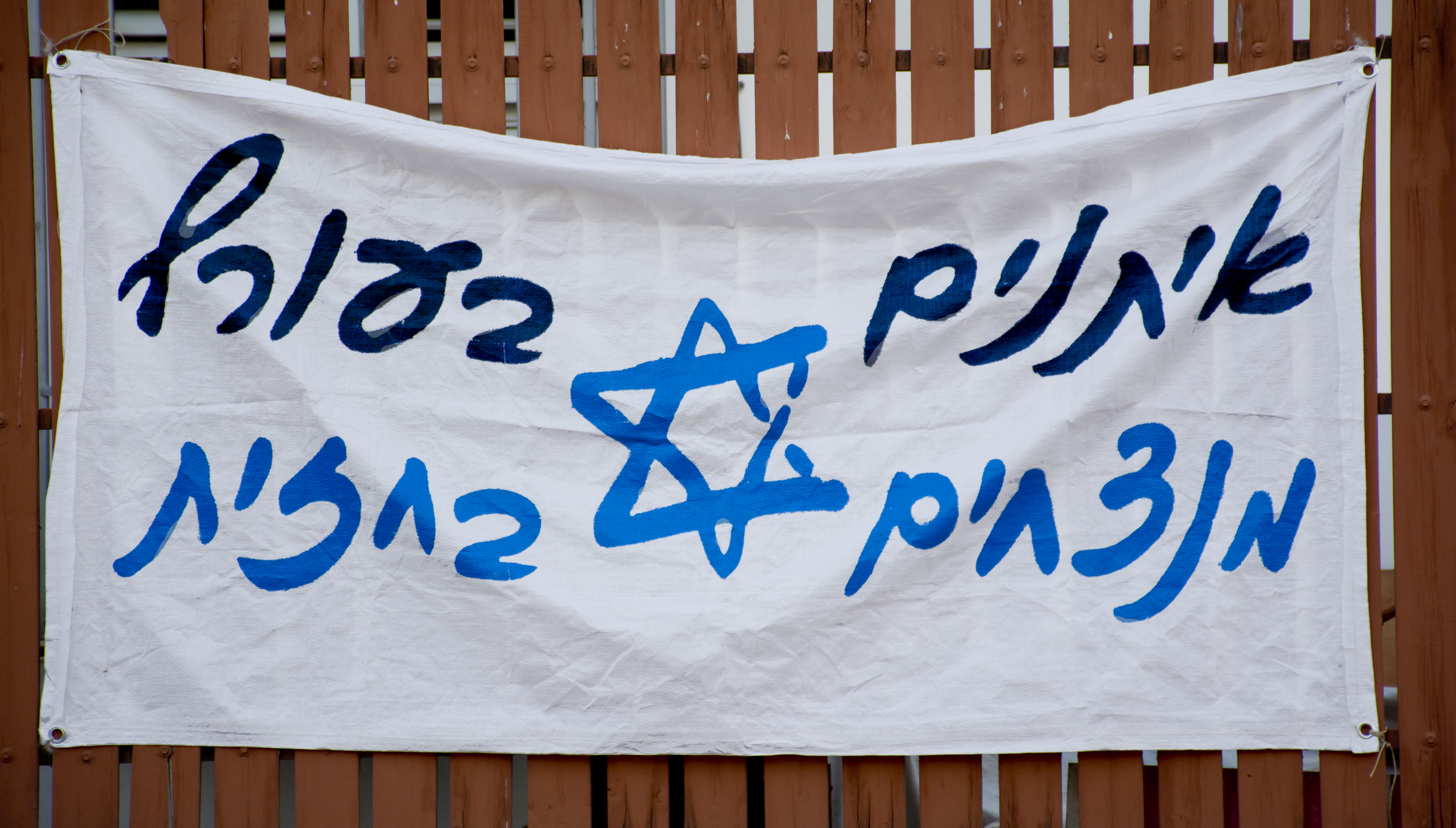 A pro-Israeli sign supporting Operation Protective Edge in Rishon LeZion, Israel. The sign reads "Strong in the hinterland, Winning on the front" (Eytanim BaOref, Menatzchim BaChazit)